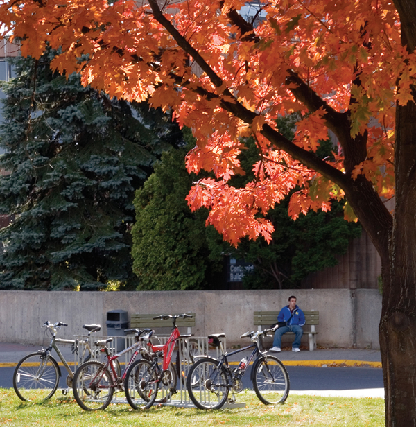 Lakehead University Campus in the Fall